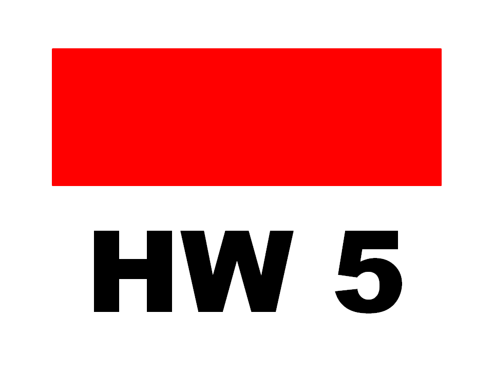 Germany - Baden-Württemberg: "Schwarzwald-Schwäbische-Alb-Allgäu-Weg", hiking sign "HW 5"